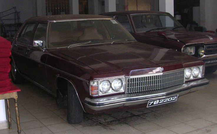 1974–1976 Statesman HJ de Ville, photographed in Colombo, Sri Lanka.